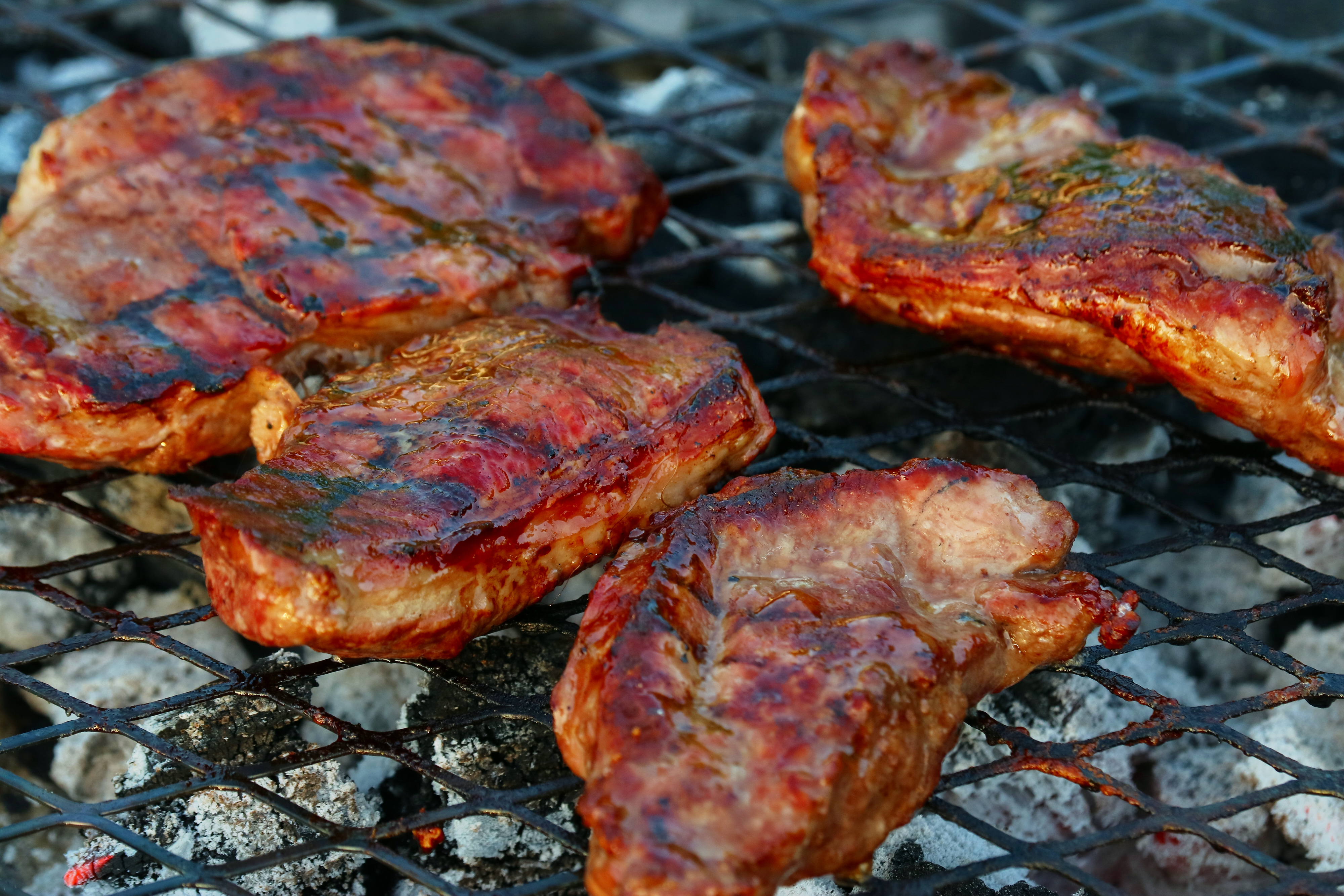 Lamb leg steaks cooking on a charcoal fired barbecue grill. Photographed near Great Missenden, UK.